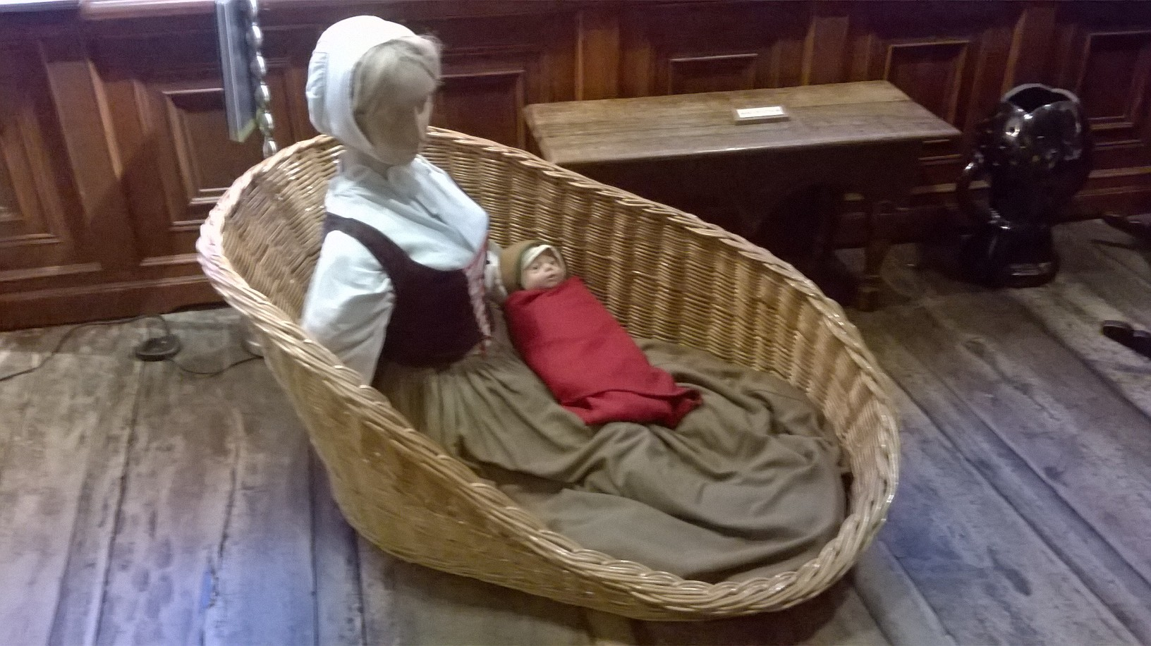 Swaddling basket, in the Westfries Museum, this basket was meant to swaddle a young child in. The woman who swaddled the baby could sit in the basket while keeping the child warm in front of a fire, or nurture it.